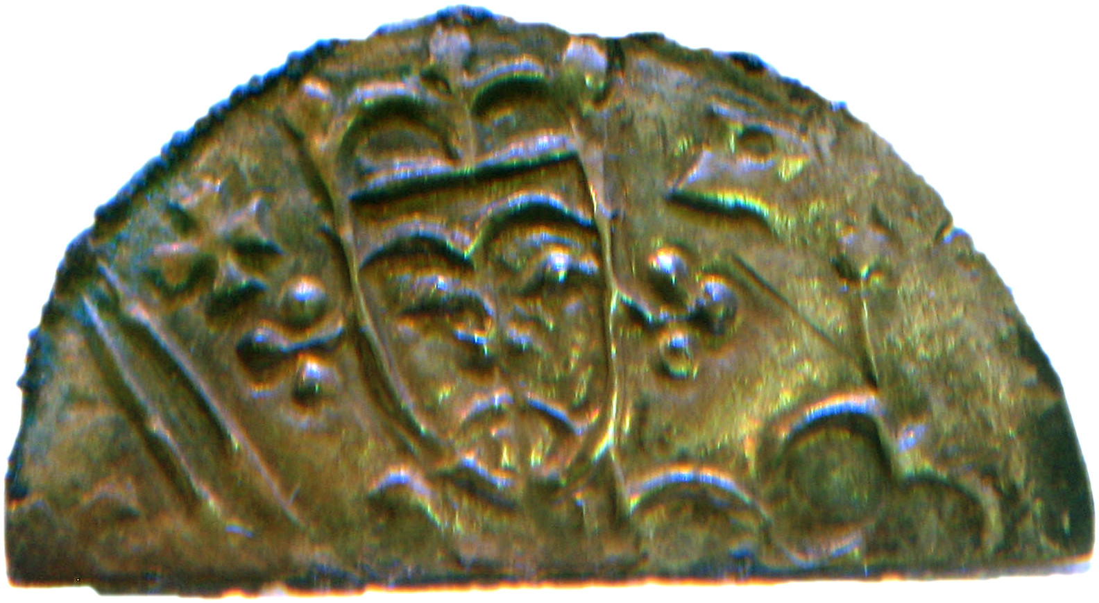 Damaged coin depicting Niels of Denmark, (1063-1134). King of Denmark 1104-1134. Photo taken at Lunds universitets historiska museum by the uploader.